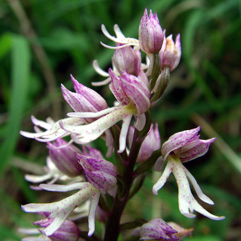 Orchis × angusticruris